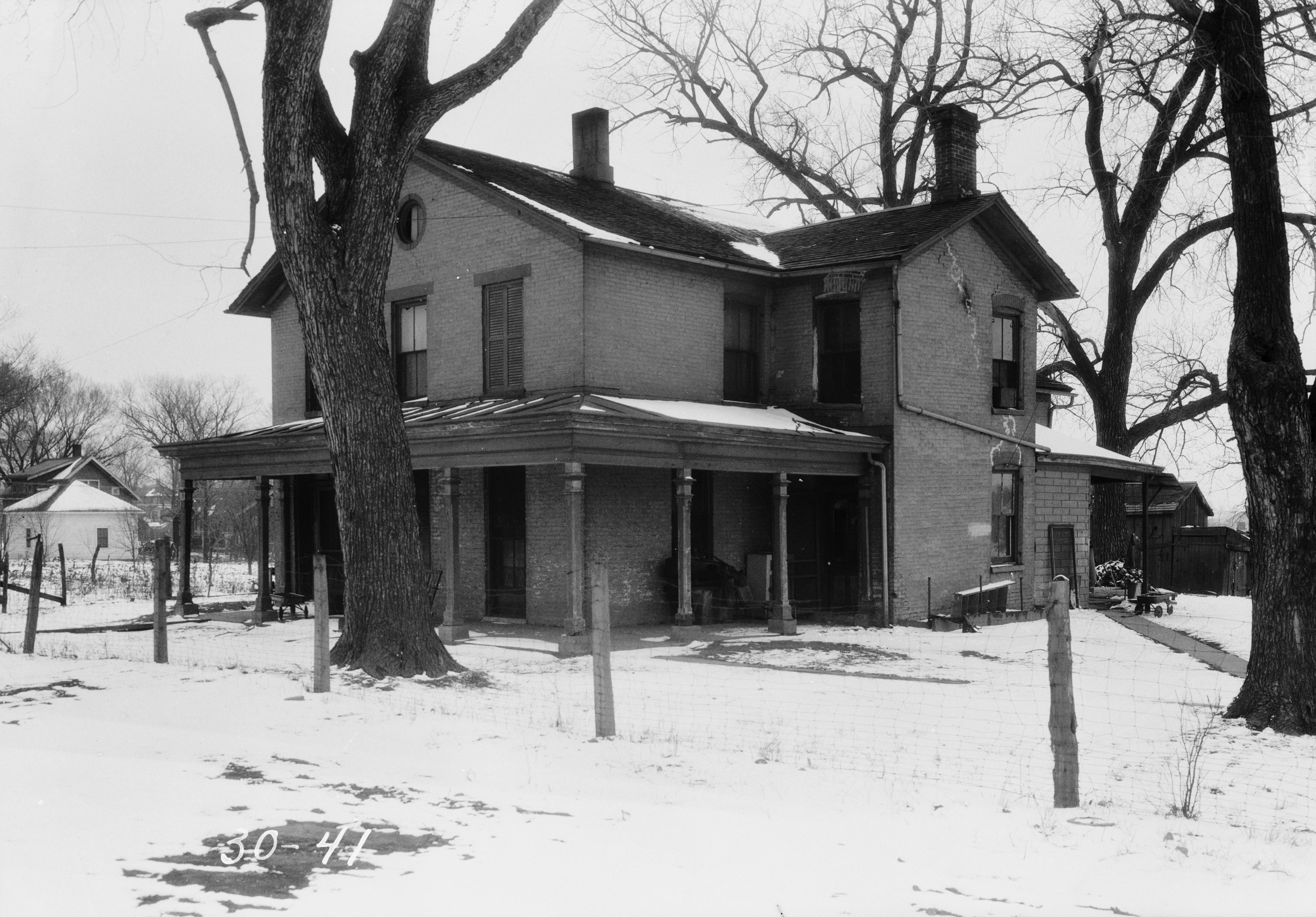 Plum Grove, Iowa, 1934, Historic American Building Survey photo, US Library of Congress